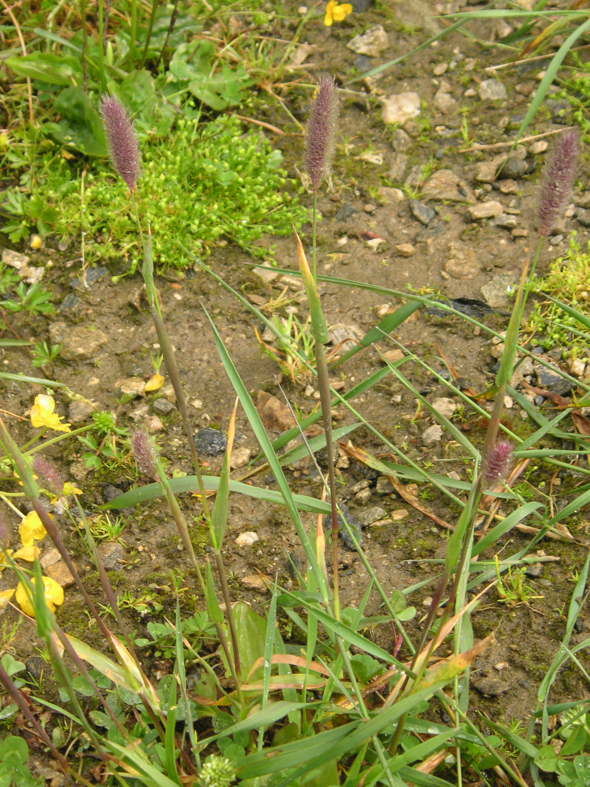 Phleum rhaeticum